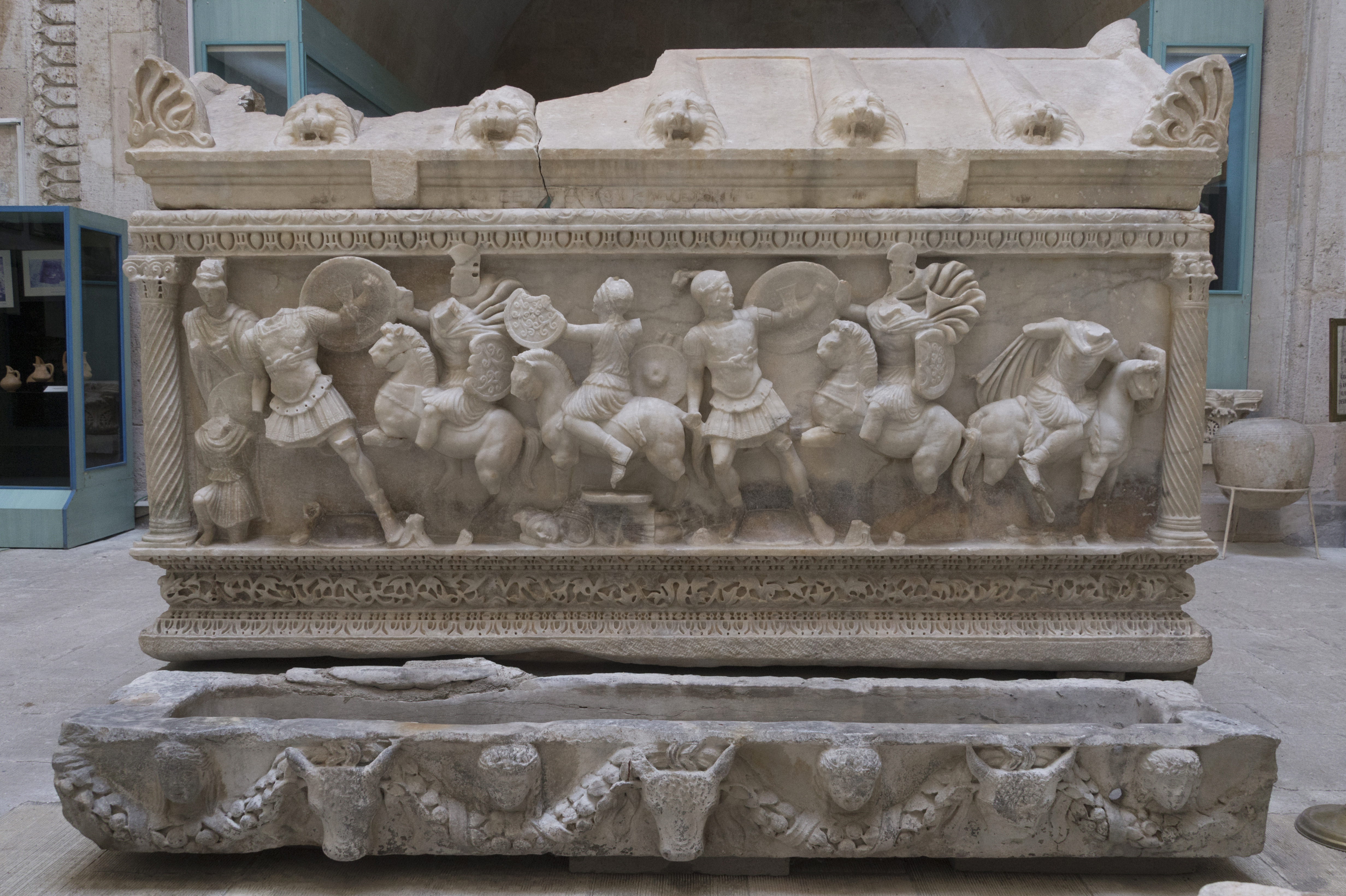 Amazon sarcophagus. For Cladius Severinus and his wife Berenice. It was found in 1990 in a graveyard at 3 kilometers from Aizanoi. It suffered some damage due to illegal earlier excavations. In an Hürriyet Daily News article I read that it is the best preserved Amazon sarcophagus in the world, and that there are only 21 known with that subject.